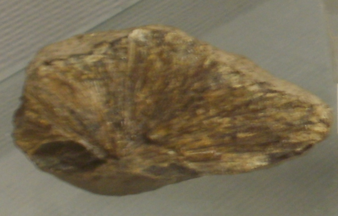 Satterlyite from the Rapid Creek area of northern Yukon, Canada. Held in the A. E. Seaman Mineral Museum.